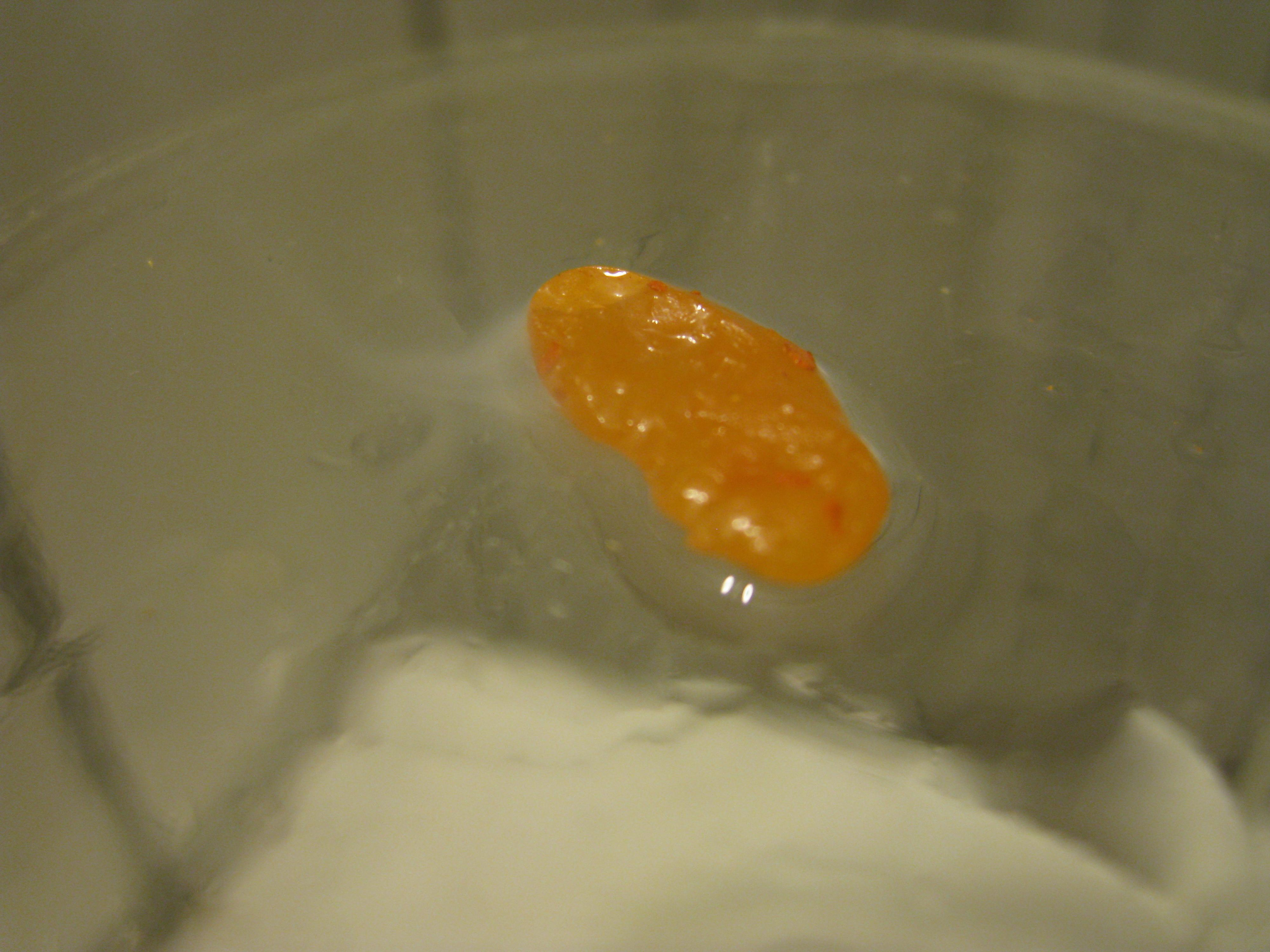 White phosphorus from the Dennis s.k collection